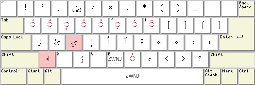 Variant of the Iranian standard ISIRI 2901 keyboard layout for Persian. For the latest version of these layout images refer to